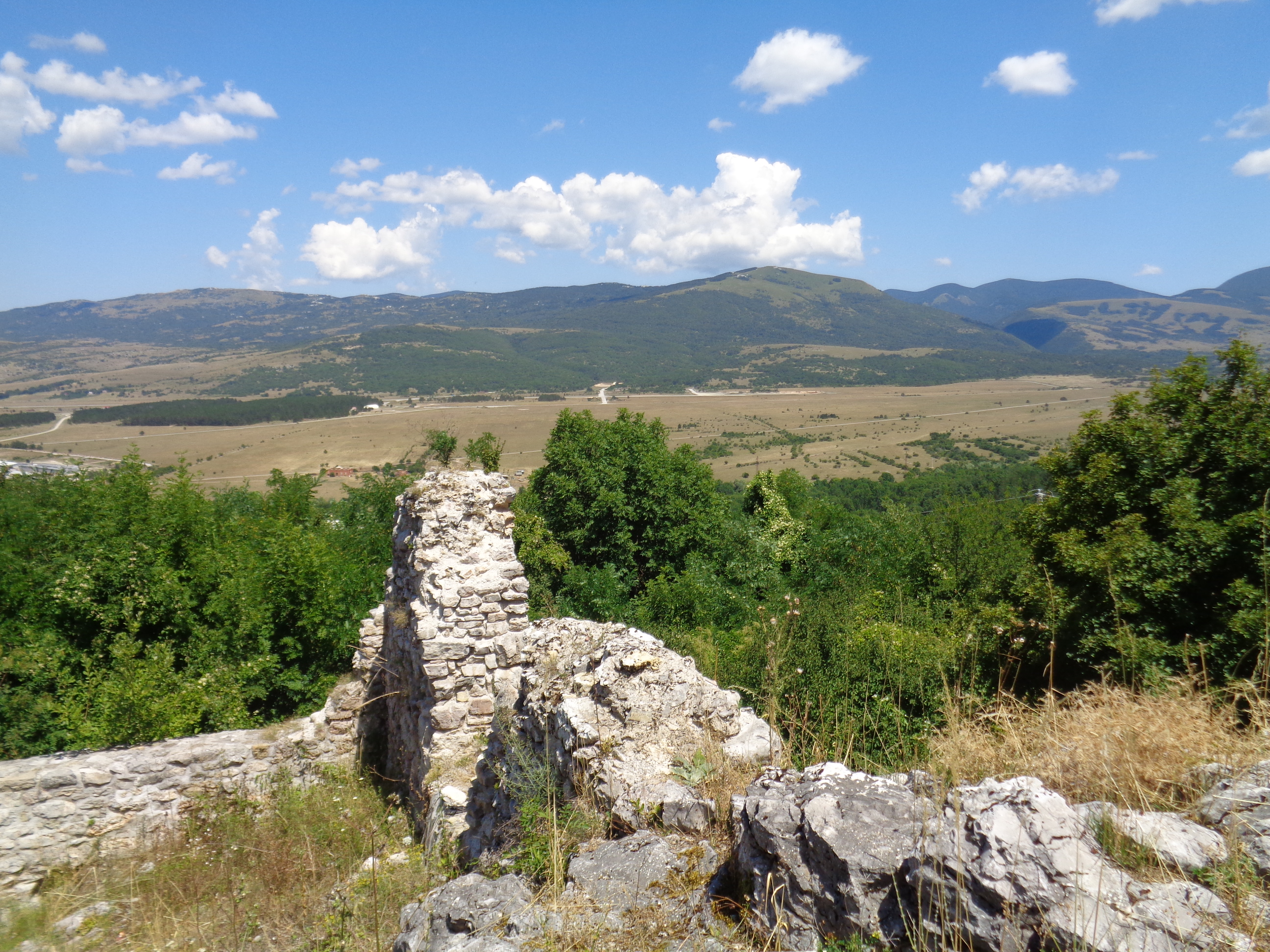 Udbina Castle in the Town of Udbina, Lika-Senj County, central Croatia - view to the Krbava Field